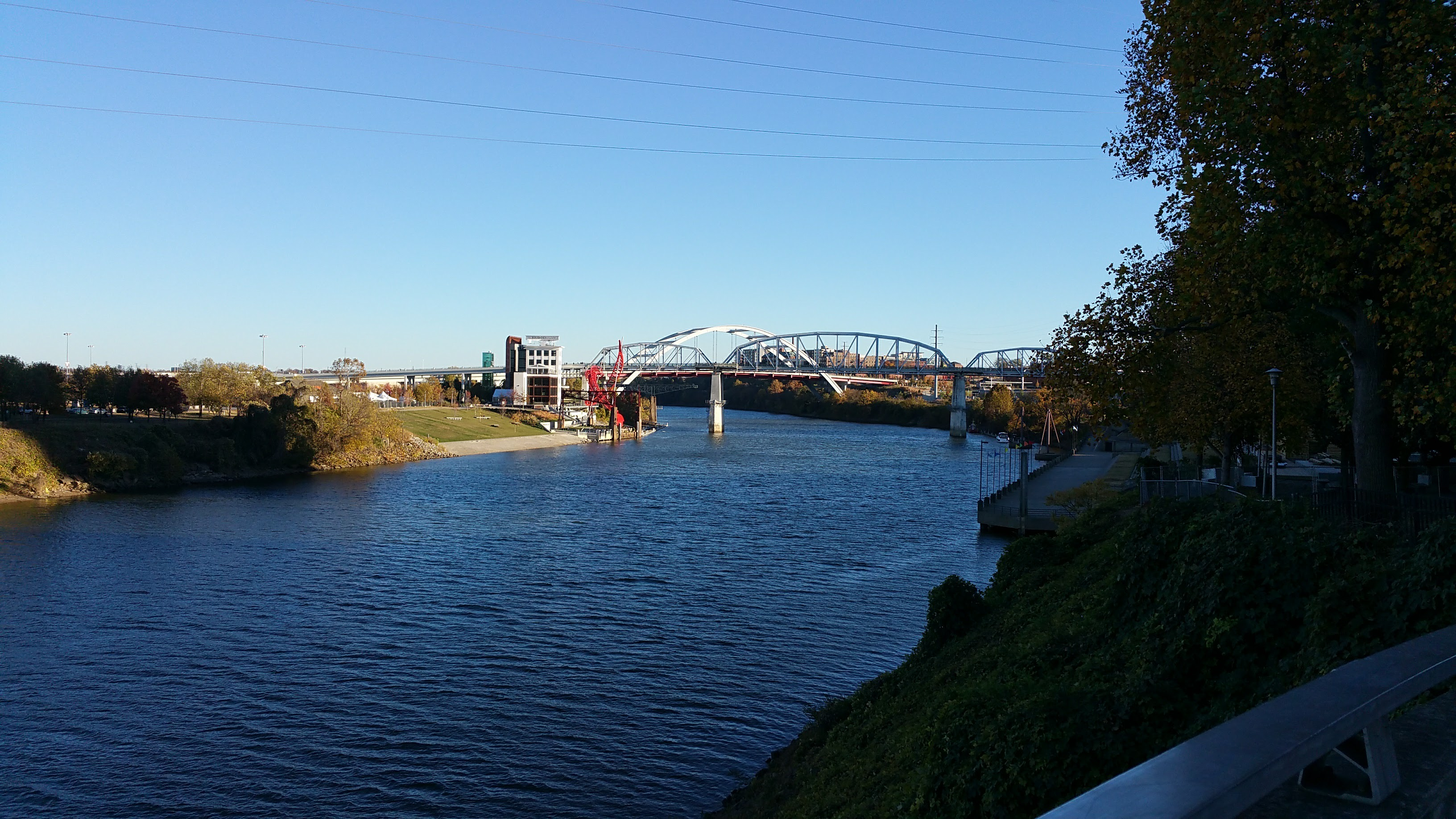 Cumberland River, Nashville, TN